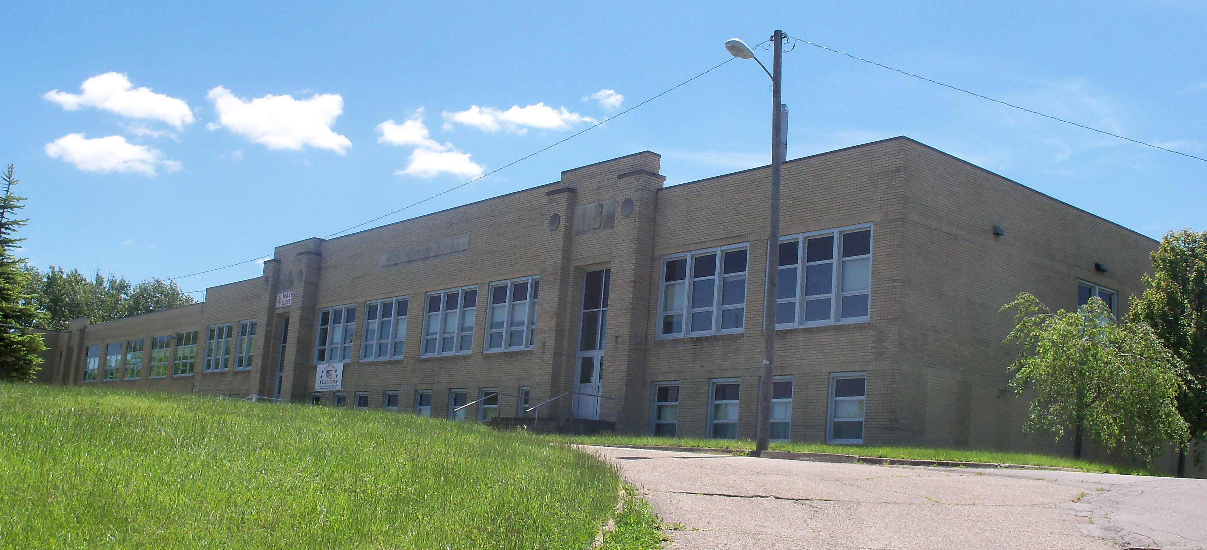 This building is located just west of Bloomingdale, Ohio. It was originally Wayne Township, Jefferson County, Ohio High School, later Wayne Elementary School, and is now closed.